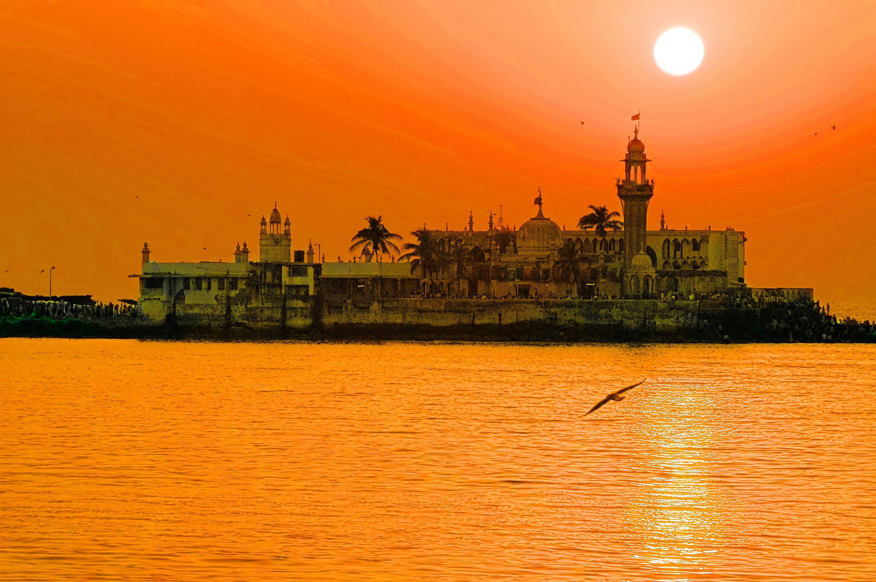 The Haji Ali Dargah, in the Mahim Bay can be reached from Mahalaxmi by a narrow causeway, and that only at high tide, when it is above the sea. A handsome example of Indian Islamic architecture, associated with legends about doomed lovers, the dargah contains the tomb of Saint Haji Ali. It sits 500 yards off the coast in the waters of Mahim Bay, near the neighborhood of Worli. It is connected with the Mahalaxmi Temple via a small path that goes into the sea, only accessible during low tide.